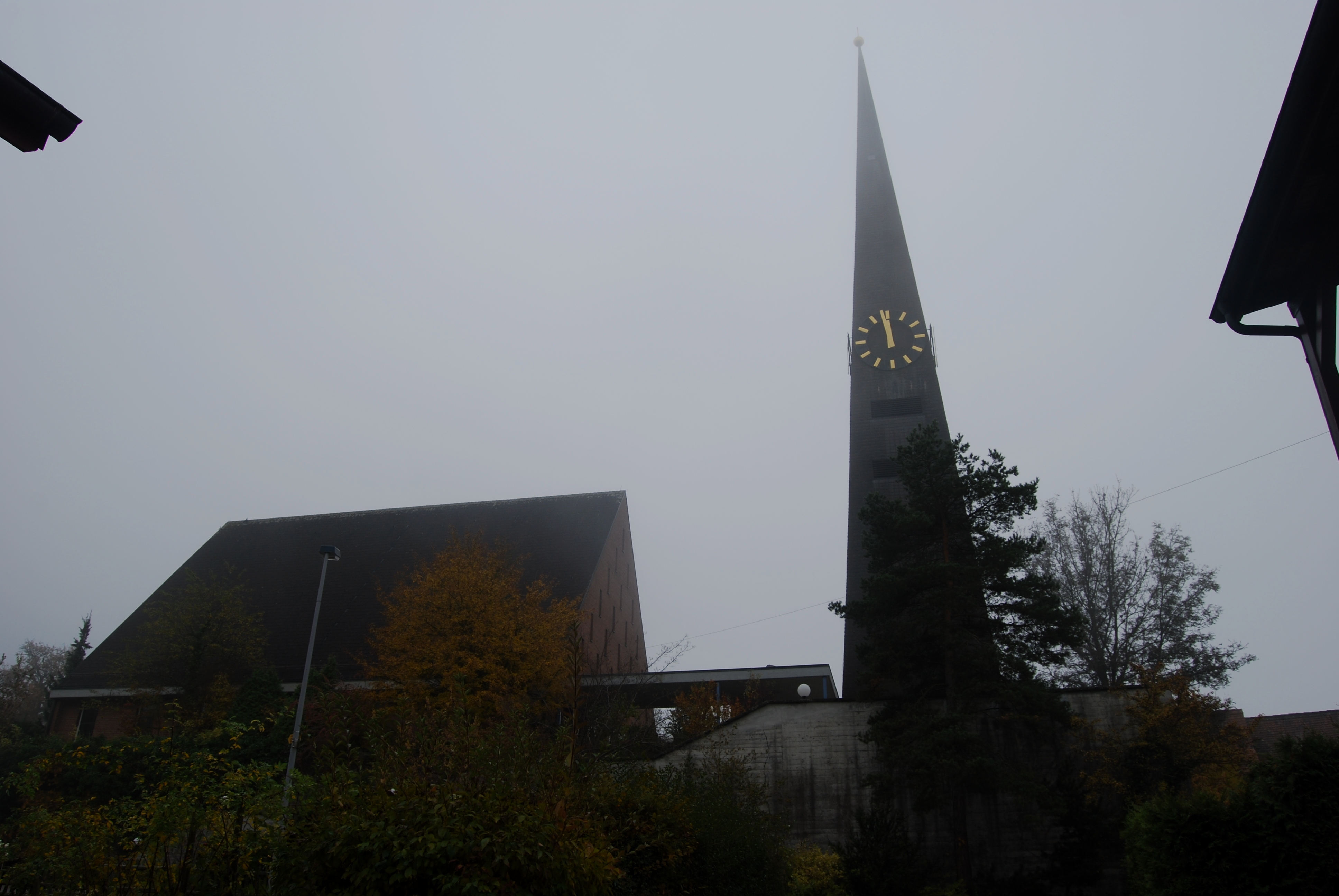 Church of Trüllikon, canton of Zürich, SwitzerlandEsperanto: Preĝejo de Trüllikon, Kantono Zuriko, Svislando